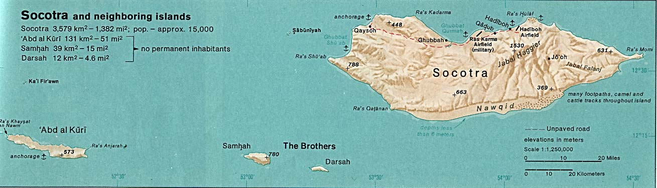 Map of Socotra Islands (Yemen) in the Indian Ocean